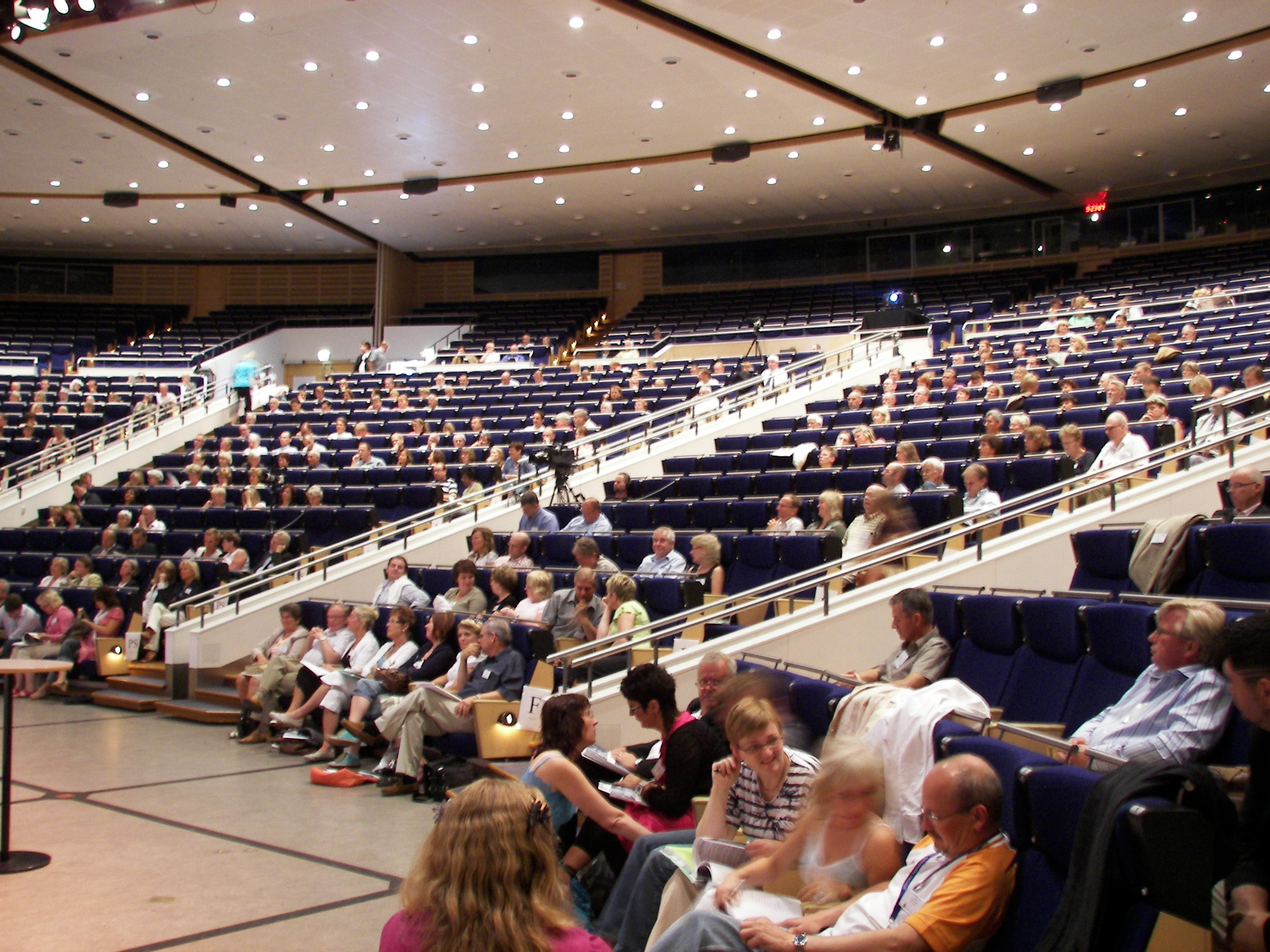 Svenska Mässan in Göteborg, Interior of the Congress Hall during the swedish christian democratic party's convention 2006.